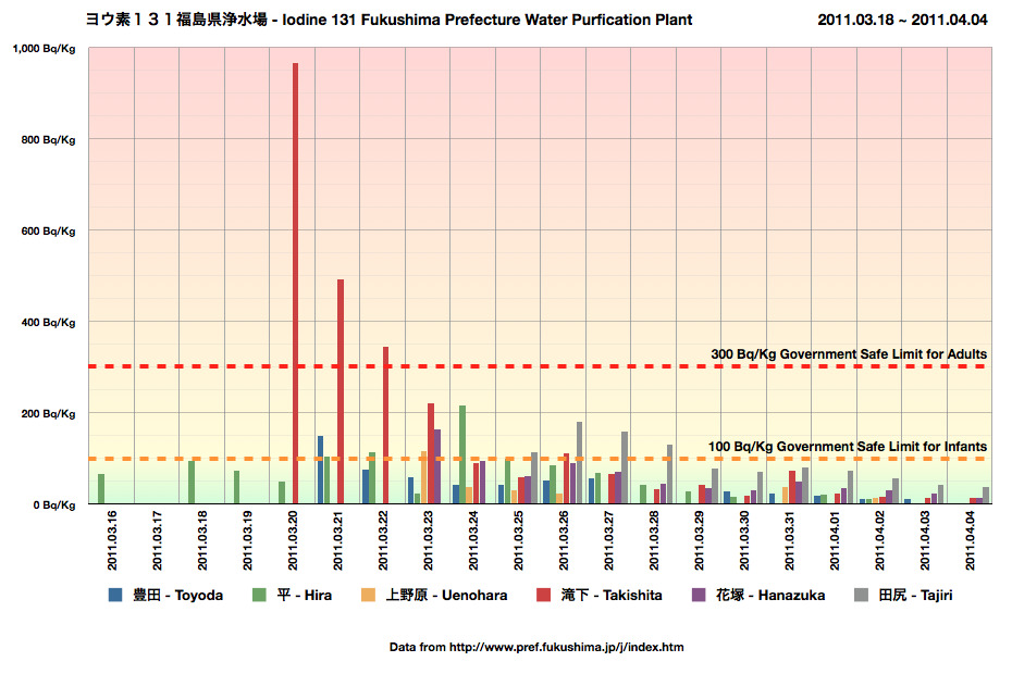 Iodine-131 water contamination in Fukushima Prefecture water purifying plants, March 18 to April 4, 2011